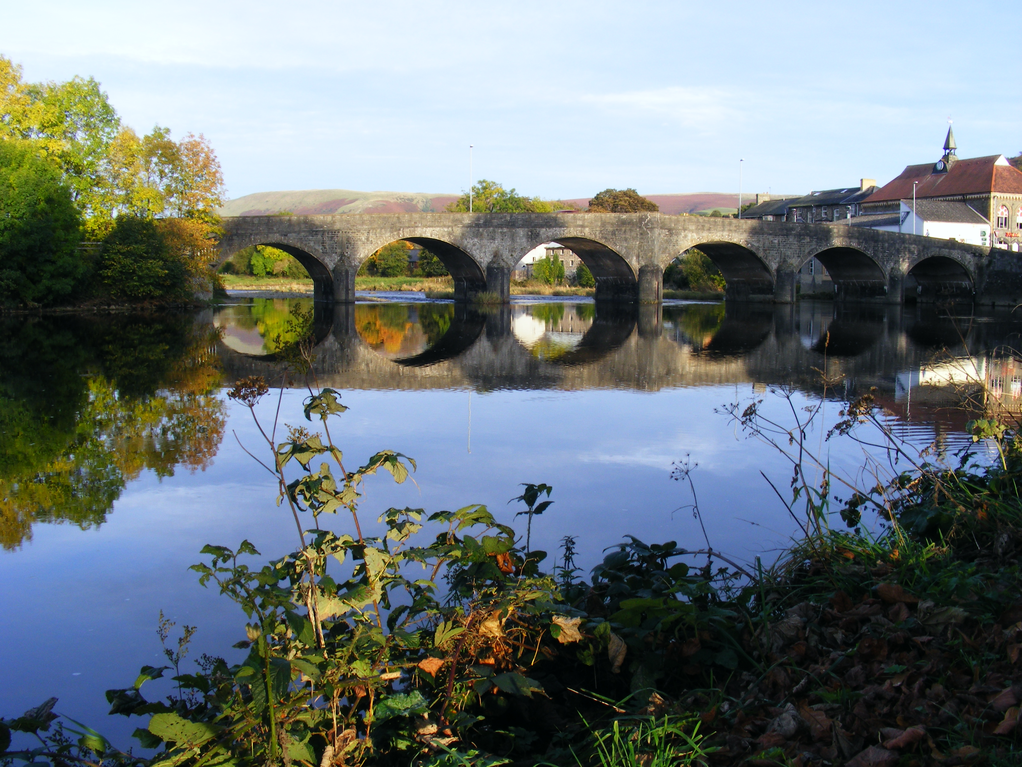 Bridge across the River Wye at Builth Wells in mid-Wales. This links Llanelwedd in Radnorshire (left of picture) with Builth Wells in Powis.